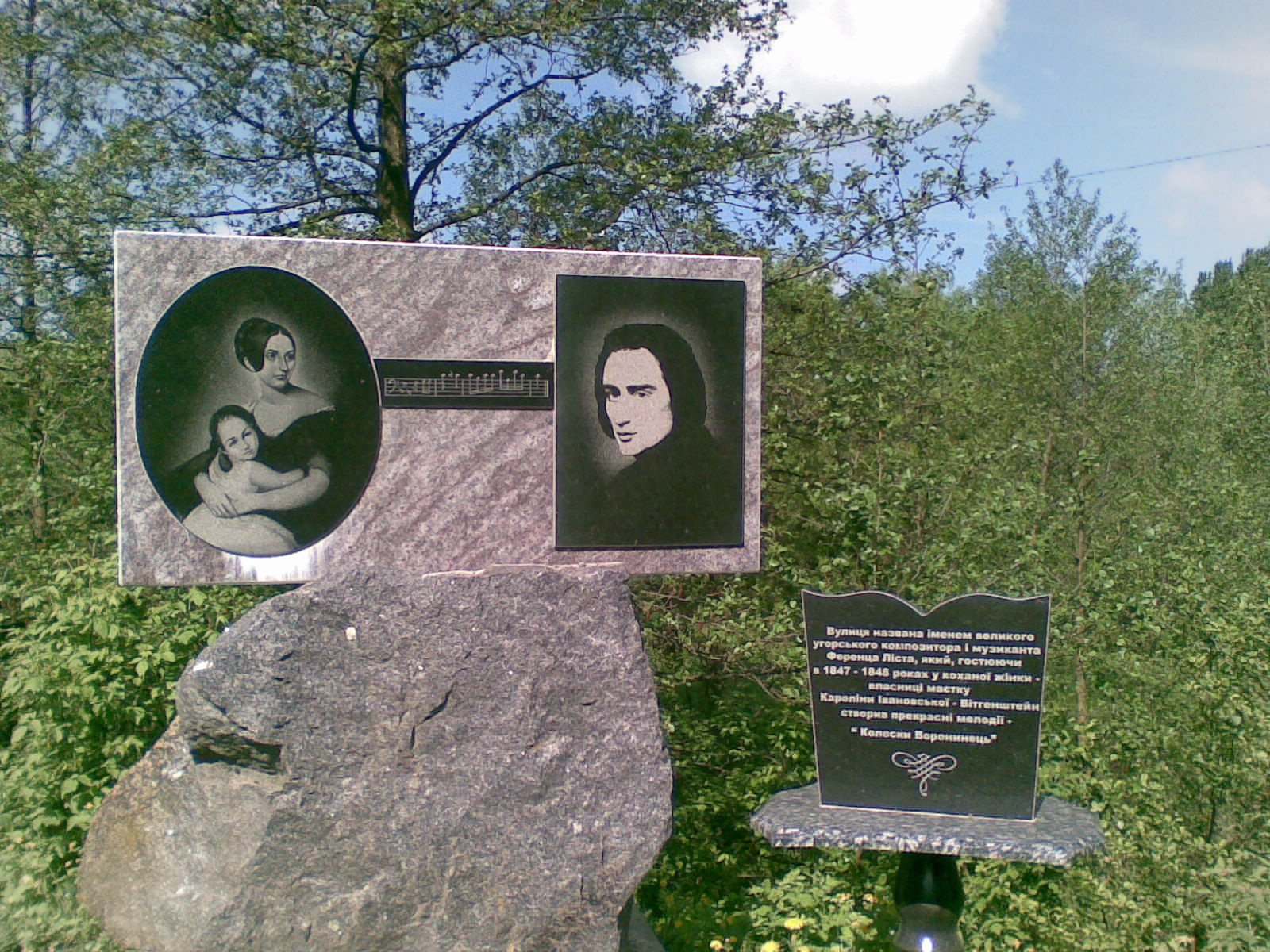 The memorial plate in the site on Voronince Manor house, where Franz Liszt was as a guest to Karoline zu Sayn-Wittgenstein